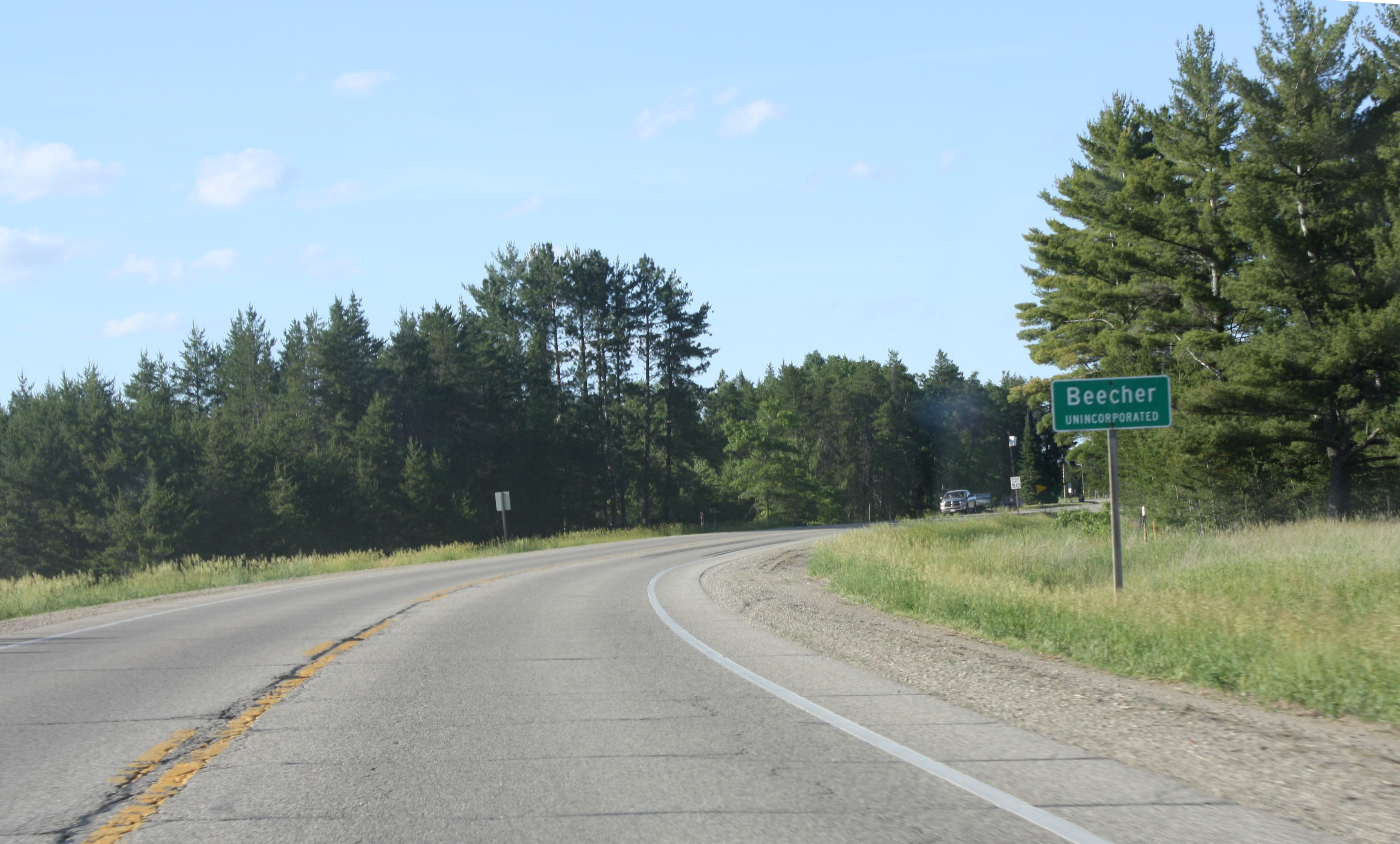 Looking north at the sign for Beecher (community), Wisconsin on U.S. Route 141.